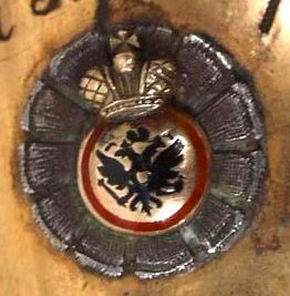 Order St Anna 4th for non christians